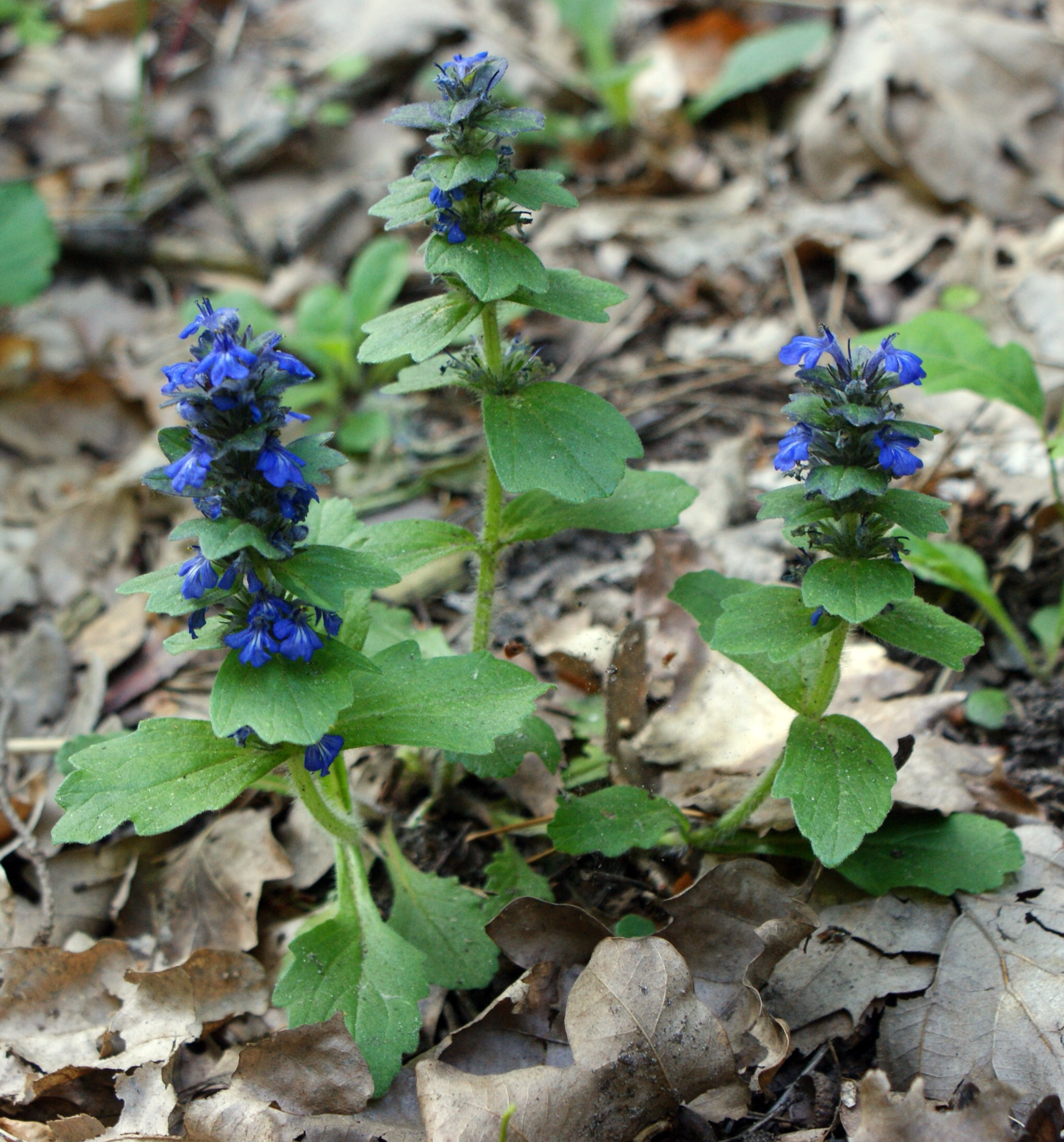 Ajuga genevensis, Szczecin NW Poland